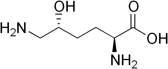 chemical structure of 5-hydroxy-L-lysine